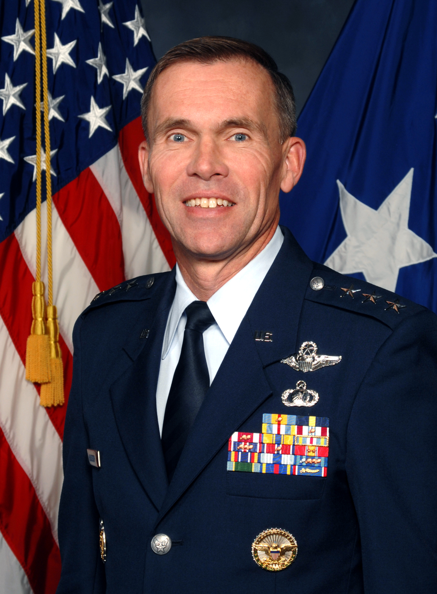 U.S. Air Force Lieutenant General Jack Hudson. Official U.S. Air Force photo.